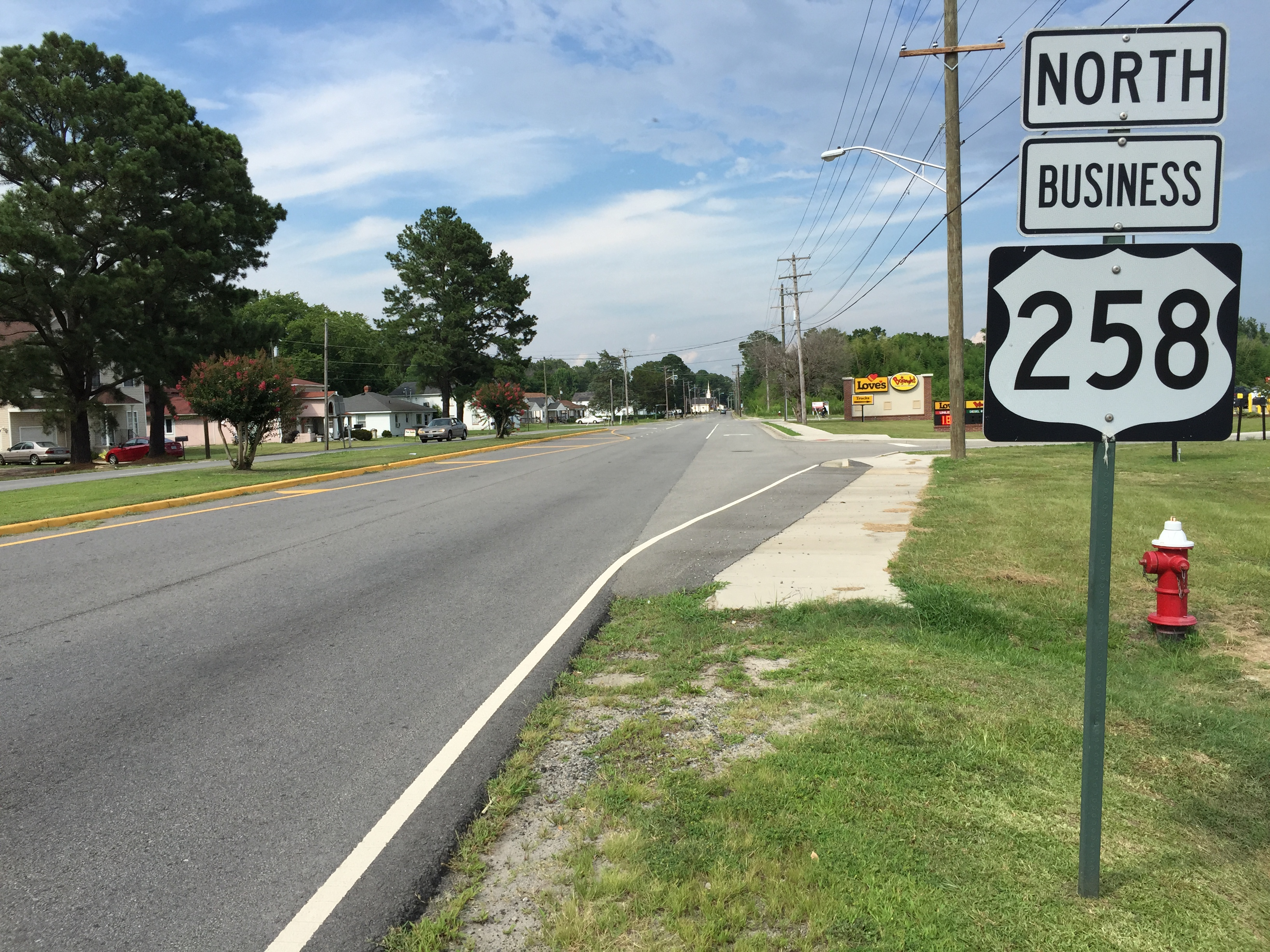 View north along U.S. Route 258 Business (South Street) at Beale Street in Franklin, Virginia